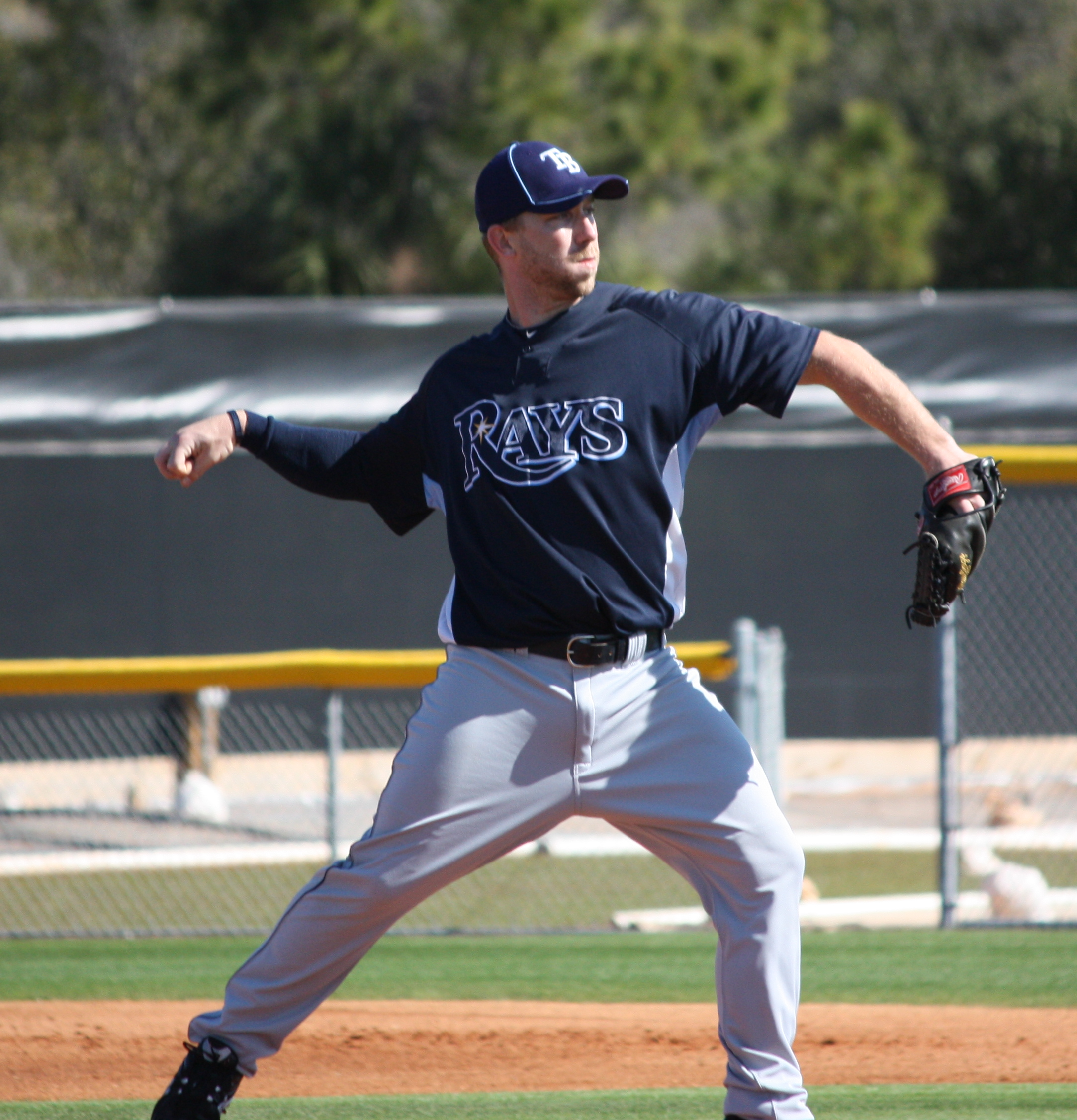 Dale Thayer of the Tampa Bay Rays doing first base drills during spring training workouts at Charlotte Sports Park in Port Charlotte on February 21, 2010.